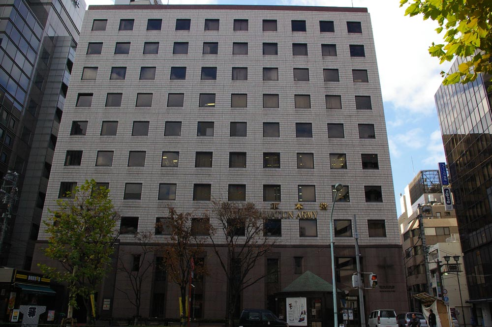 Salvation Army,Japan,Tokyo.Taken by Los688,Dec 2005.